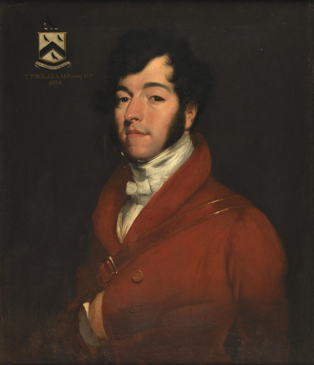 A painting from the Framed Works of Art collection at the National Library of wales.